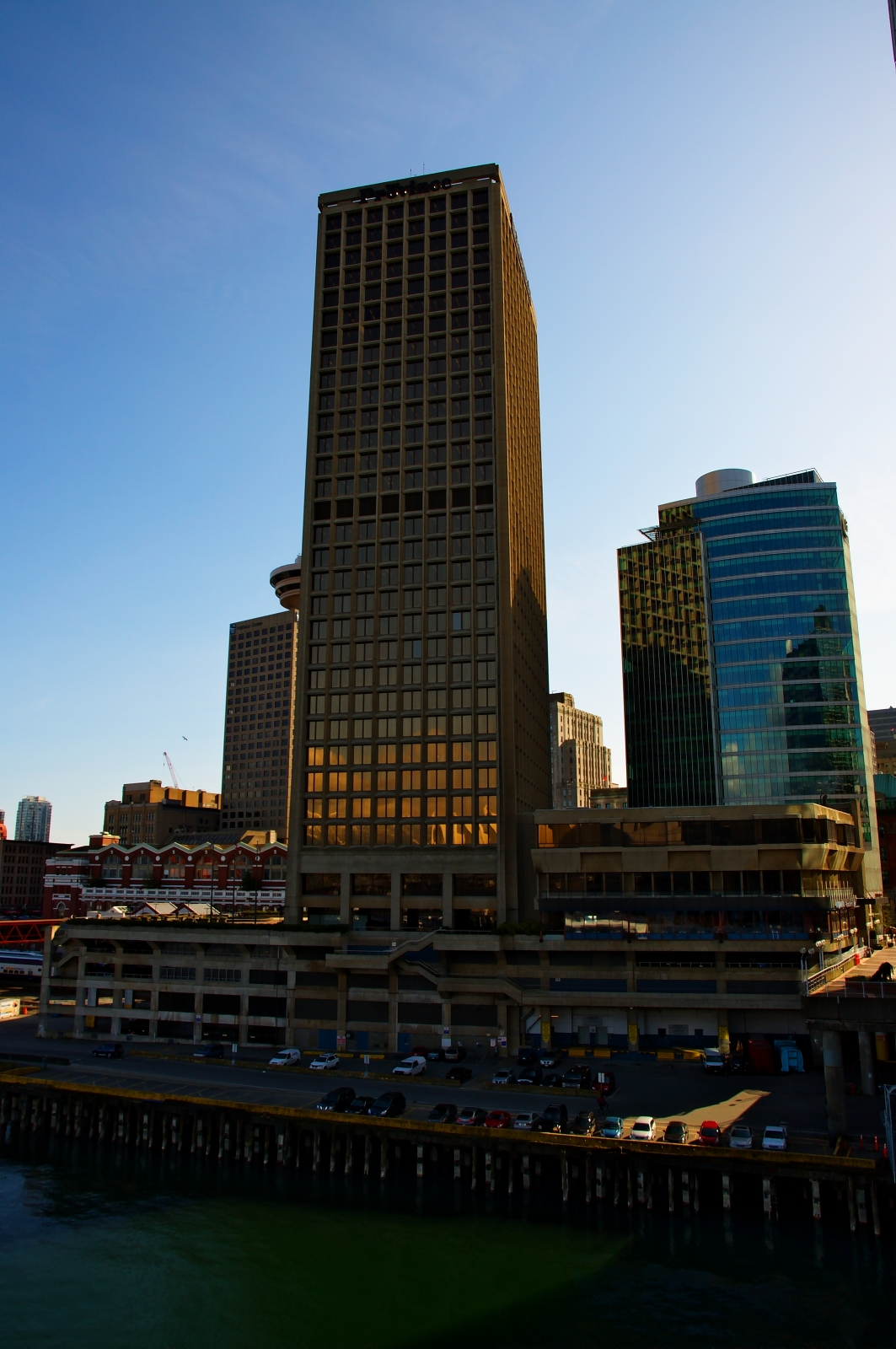 Built 1973, 142m. Home of the Vancouver Sun and The Province newspapers.